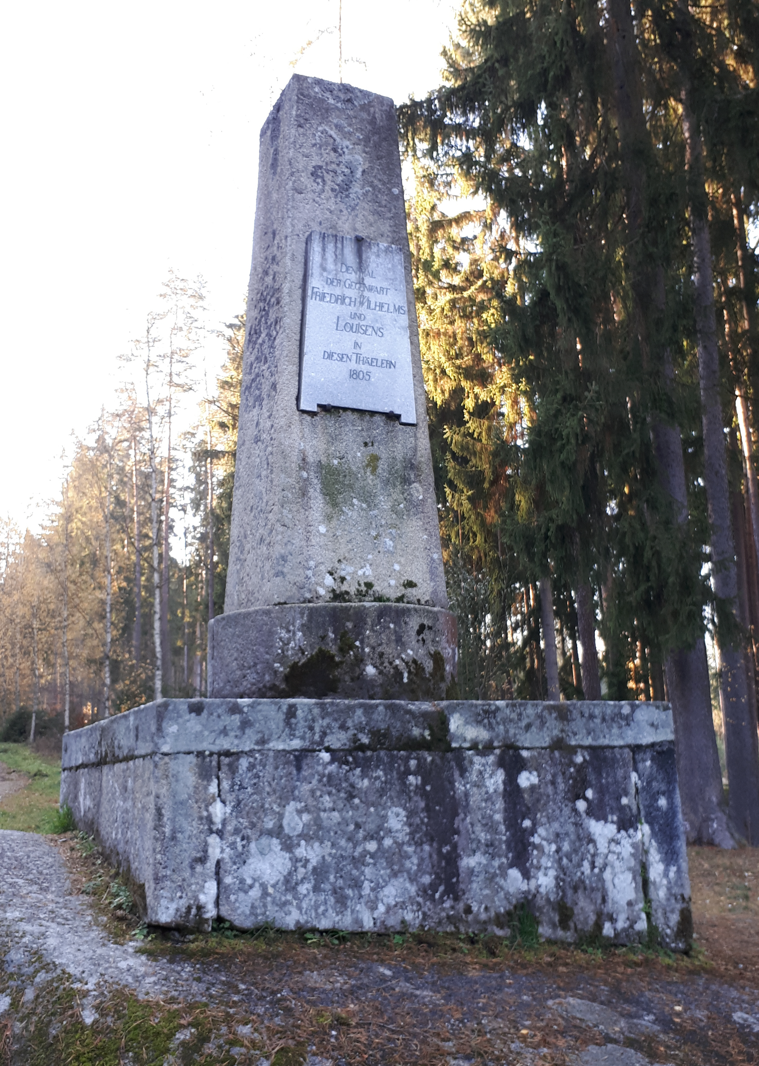 Memorial remembering King Friedrich Wilhelm III. of Prussia and Queen Luise, Bad Alexandersbad, Bavaria, Germany